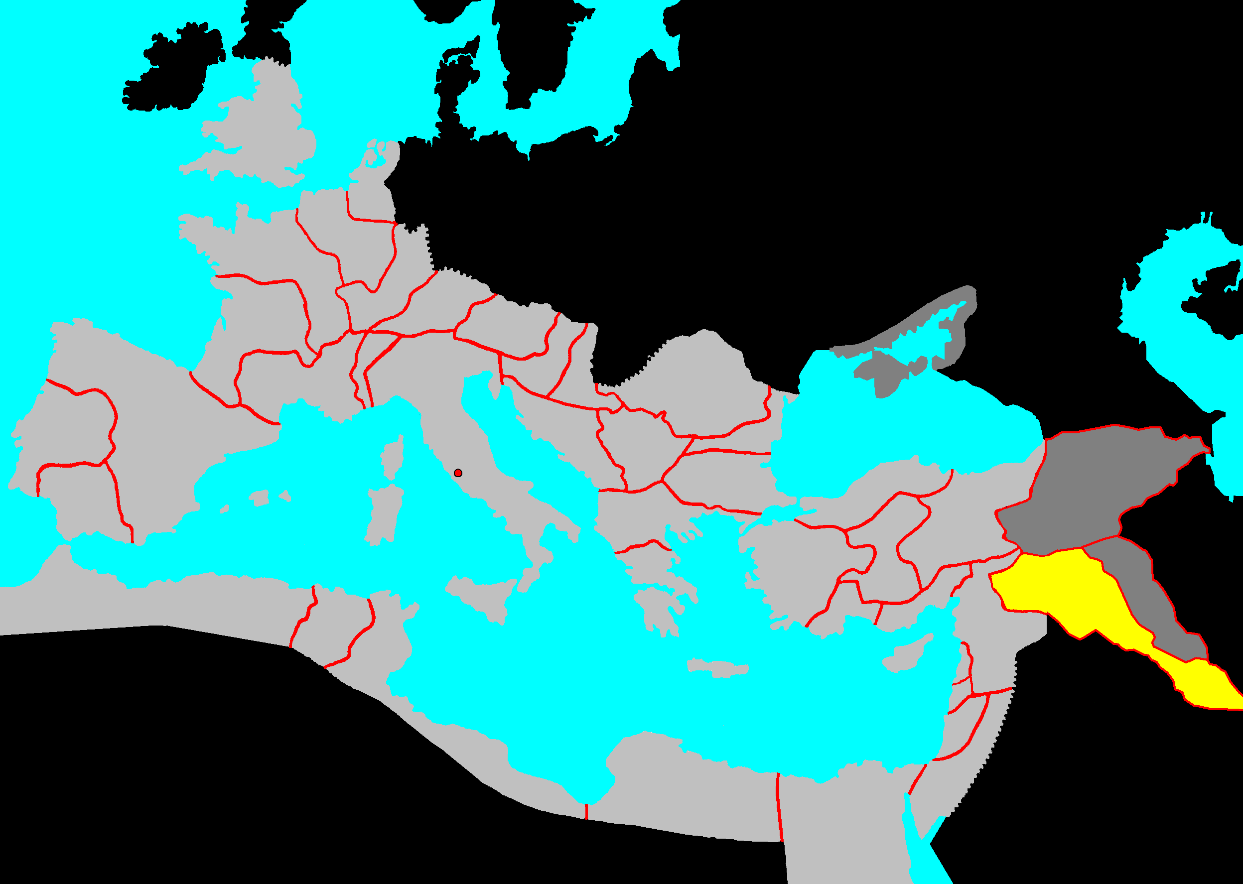 Description: provinces of the Roman Empire (Imperium Romanum) Source: own work Date: December 2005 Author: --Immanuel Giel 12:54, 13 December 2005 (UTC) Other versions: none